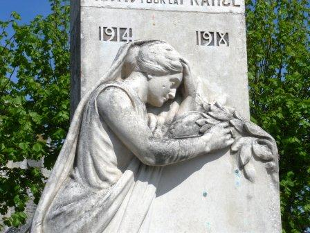 The monument aux morts at Andechy in the Somme; a work by the sculptor Georges Legrand